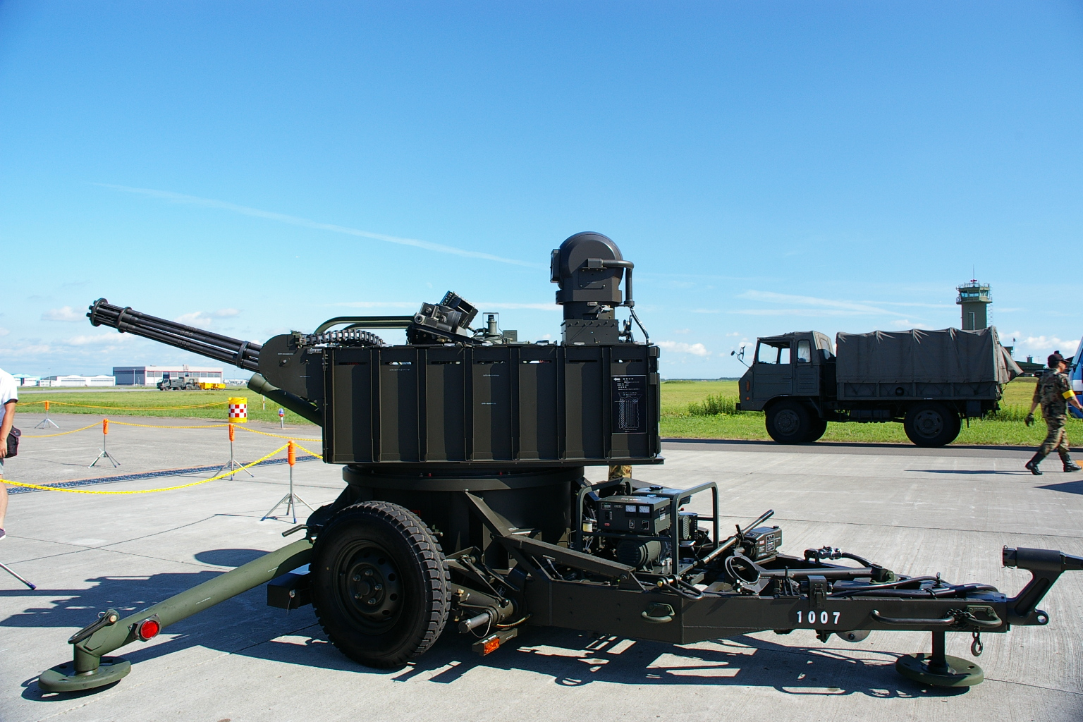 M167VADS used in the Air Self Defense Force.